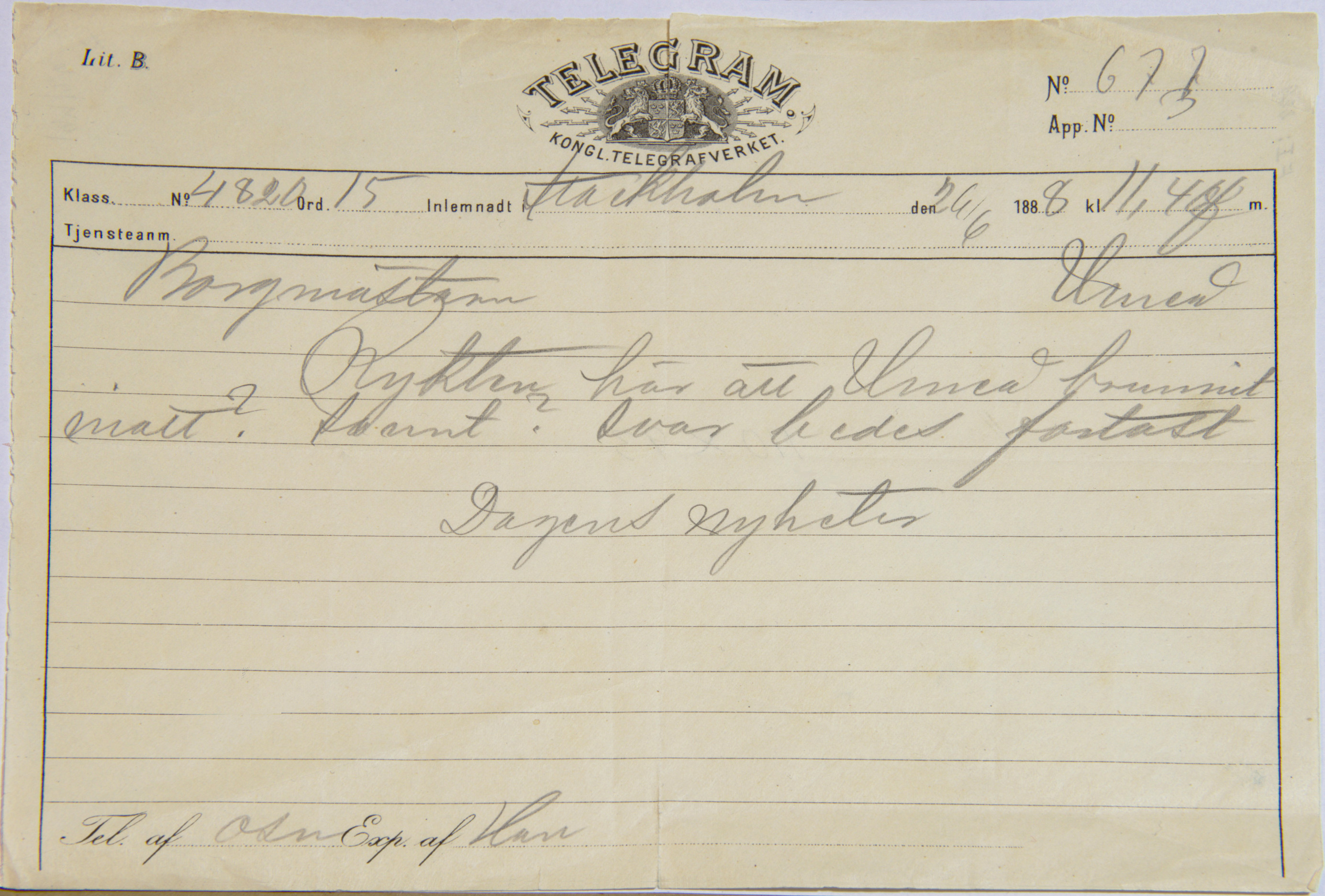 The national newpaper Dagens Nyheter's telegram to the Mayor of Umeå June 26, 1888 "Rumors here that Umeå burned tonight? True? Please reply quickly"